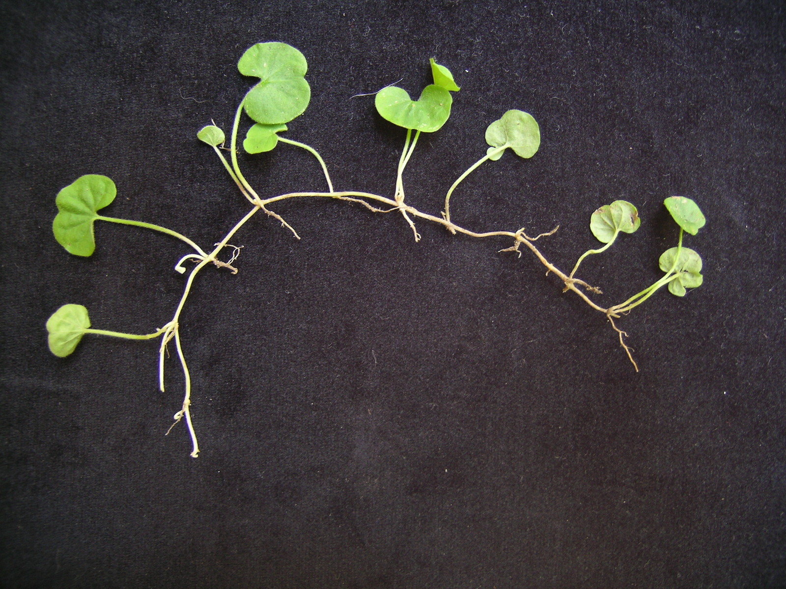 Native, yearlong-green, perennial, low-growing herb, to 4 cm tall and with creeping stems that root at the nodes. Leaves are kidney-shaped and slightly to densely hairy. A minor component in pastures, woodlands and forests. Grows where bare ground is available and/or competition is reduced. Most abundant in shaded areas where it can form a short dense groundcover. A useful replacement for grasses in such areas.